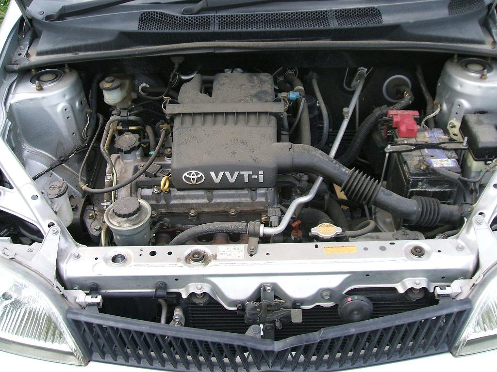 Toyota 1SZ-FE engine for Toyota Platz.